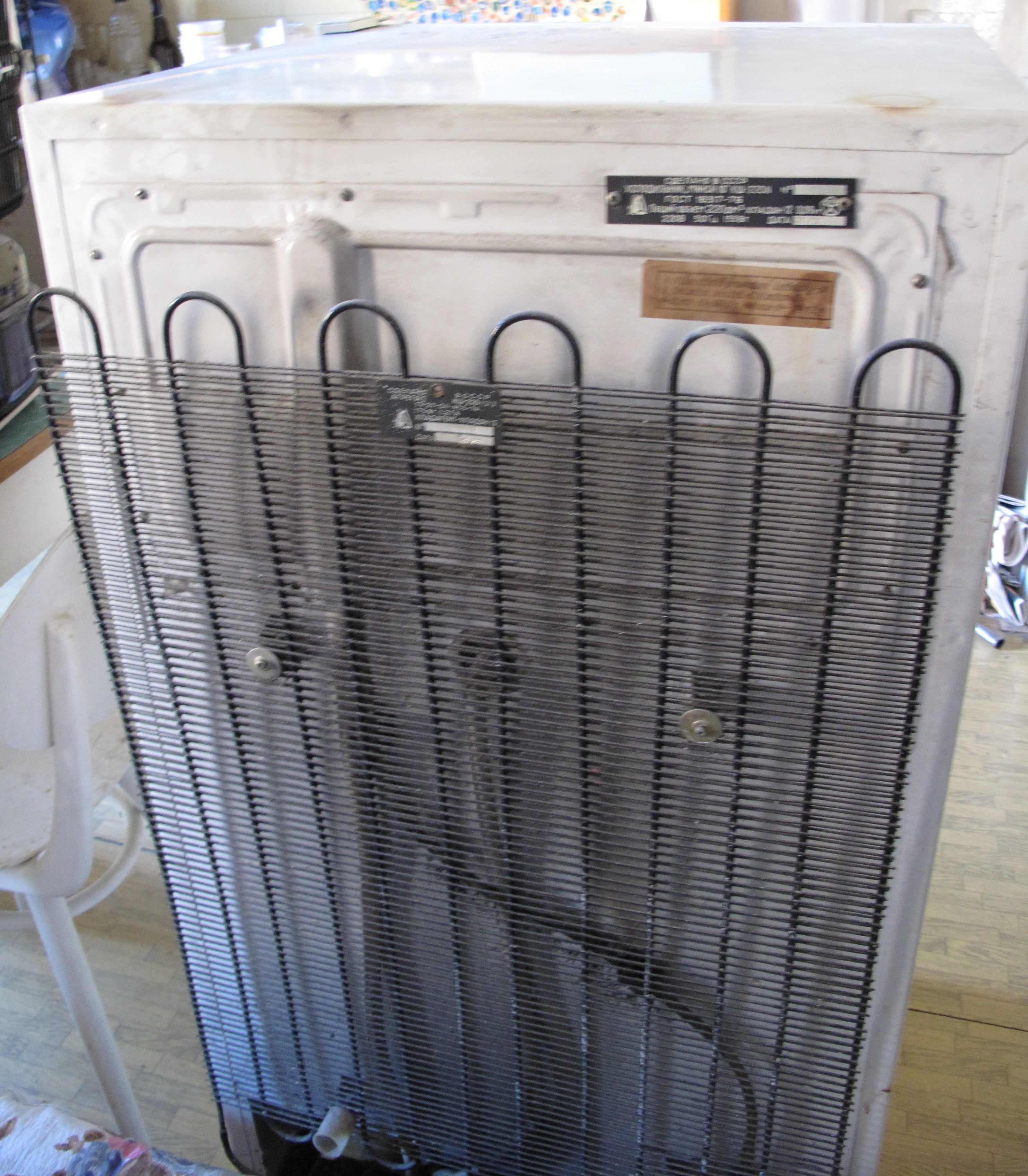 Minsk 10 fridge - heat exchanger. Made approximatelly in 1980.